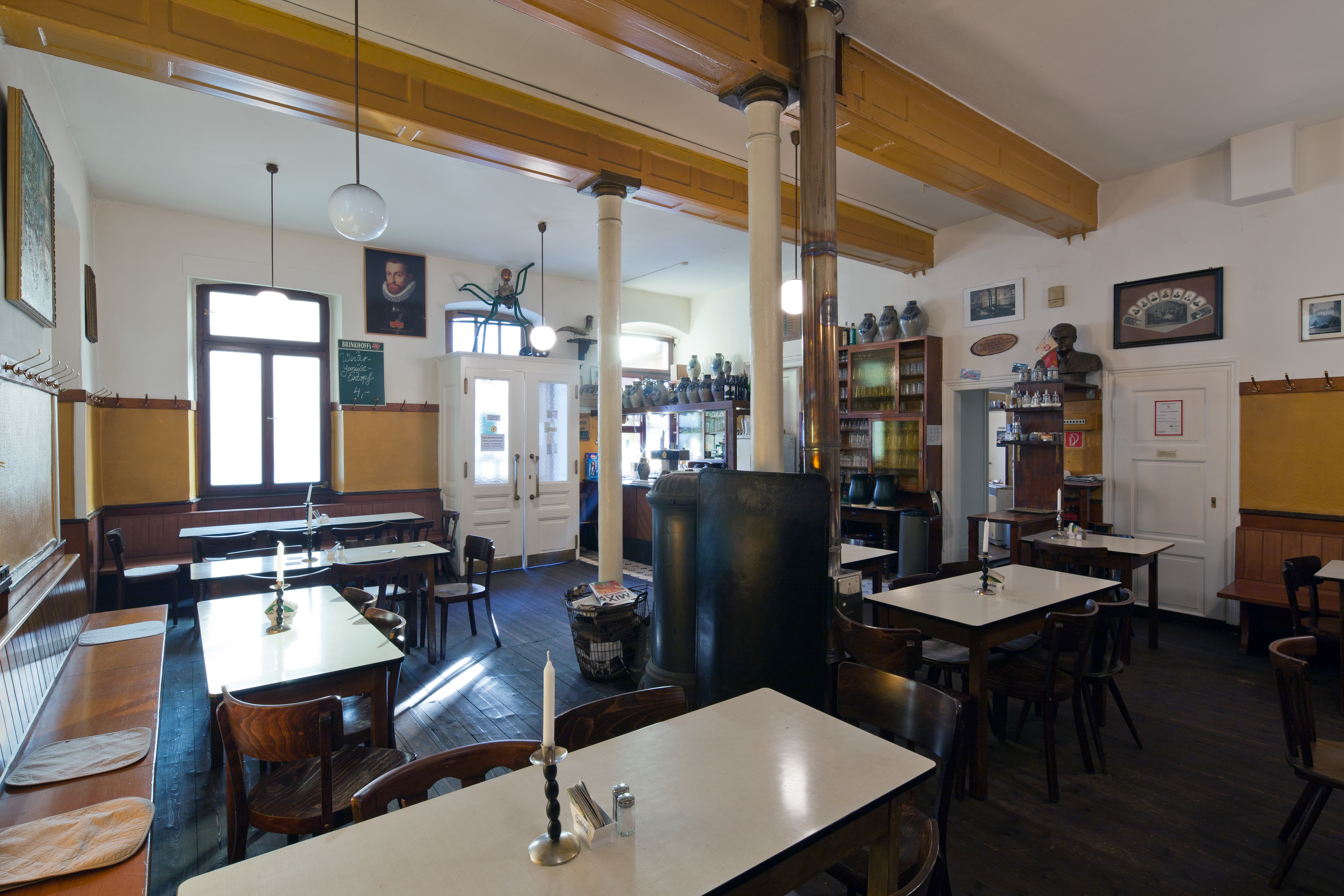 Frankfurt on the Main: Stalburger Oede (Stalburg Waste), taproom of the main building as seen from the northeast